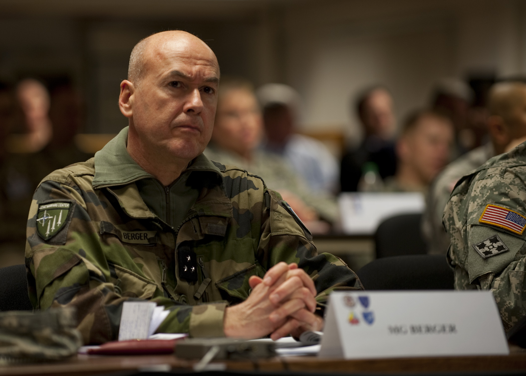 French Maj Gen Jean Fred Berger, commander of NATO’s Joint Warfare Centre in Stavanger Norway, listens to an exercise briefing at Exercise Unified Endeavor 12-2, being held at Grafenwoehr Training Area at the U.S. Army Europe’s Joint Multinational Training Command in Germany. Berger is acting as the co-director for the exercise that involves more than 1,900 Soldiers, Sailors, Airmen and Marines from 27 countries, all assembled to create a simulated multi-tiered international military leadership structure similar to the NATO and U.S. military command and control structure in Afghanistan. UE12-2 is being held from 24 March until 9 April 2012. US Army Europe Public Affairs photo by Richard Bumgardner.